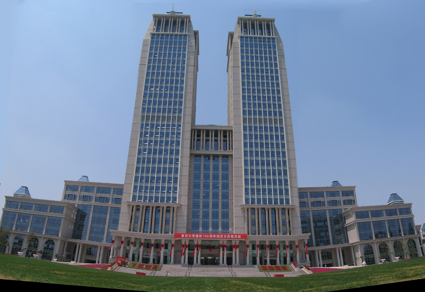 Guanghua Twin Towers at Fudan